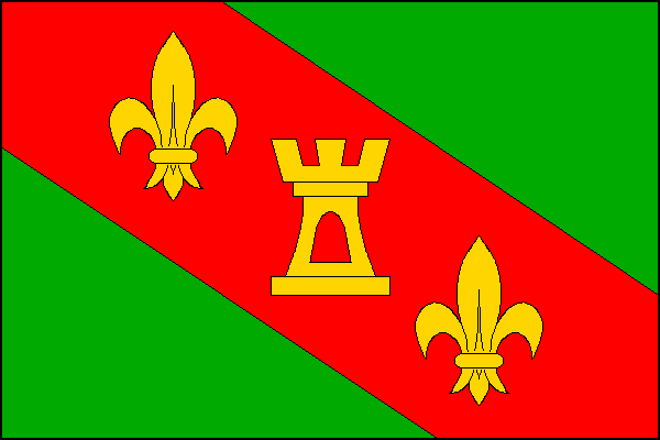 Municipal flag of Louka village, Hodonín District, Czech Republic.